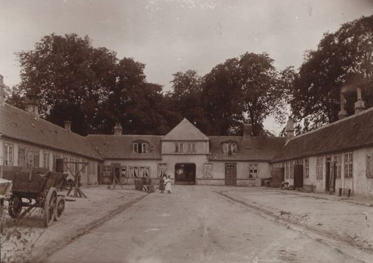 Ny Kalkbrænderi ("New Lime Plant" which was located at the triangular site between Løgstørgade (then Kalkbrænderivej), Århusgade (Fortunavej) and Strandboulevarden (Strandpormenaden, Gefionvej) in the Østerbro district of Copenhagen, Denmark. It was established in 1770 and the main Building was demolished in 1915.